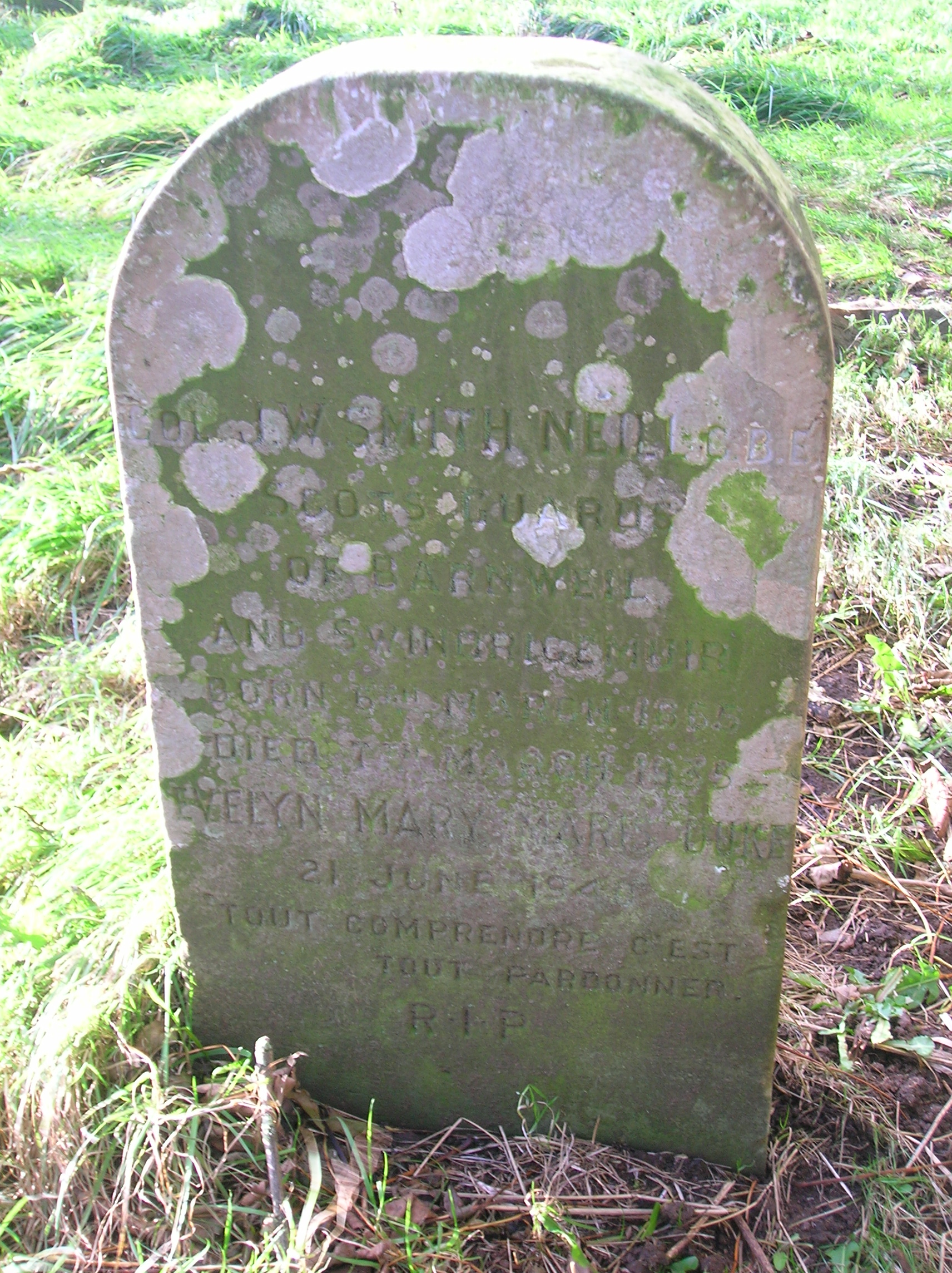 Gravestone of Colonel J W Smith Neil of Barnweill House and Swindridgemuir , South Ayrshire, Scotland